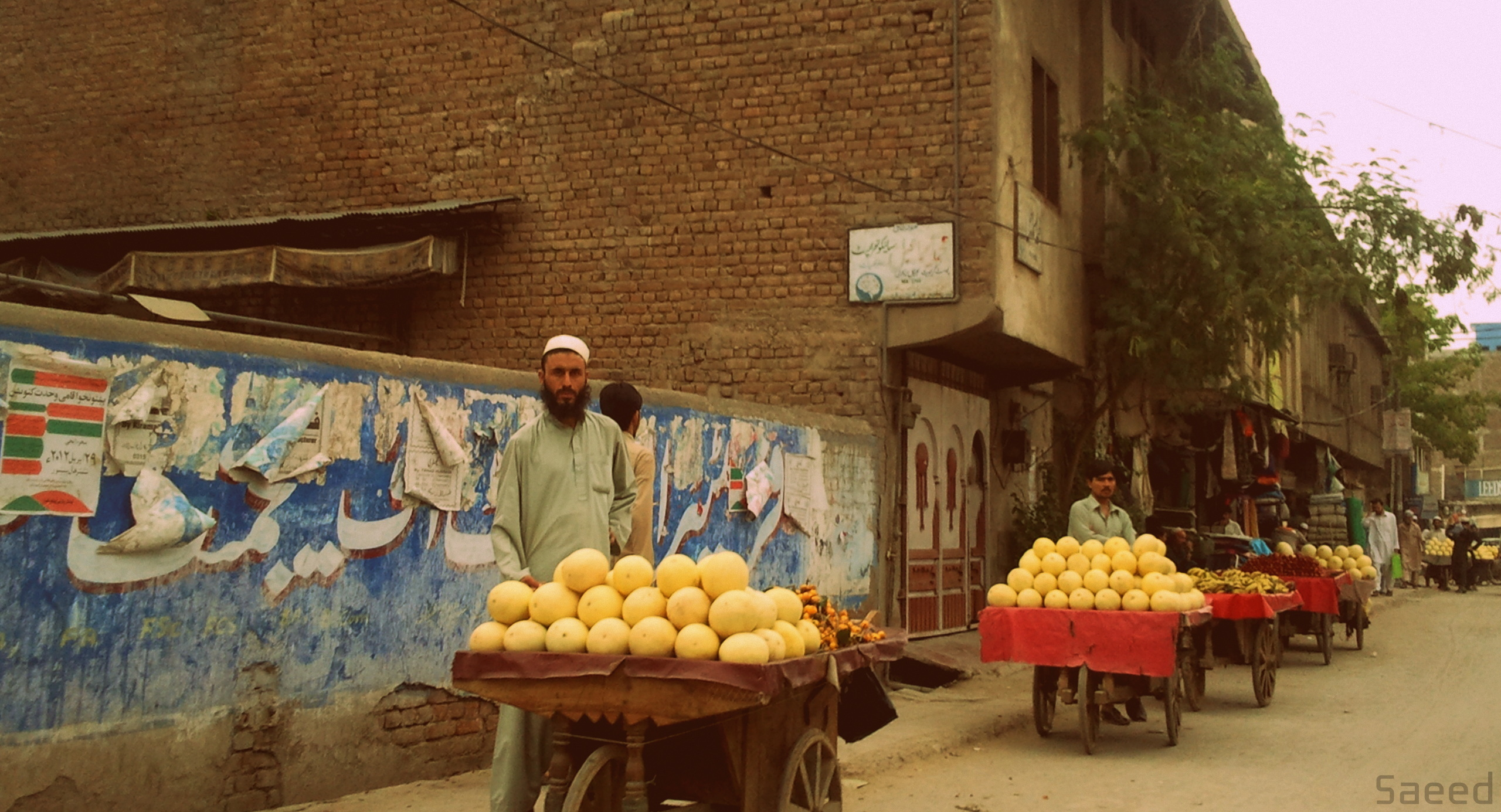 Fruit seller selling local melons in Peshawar